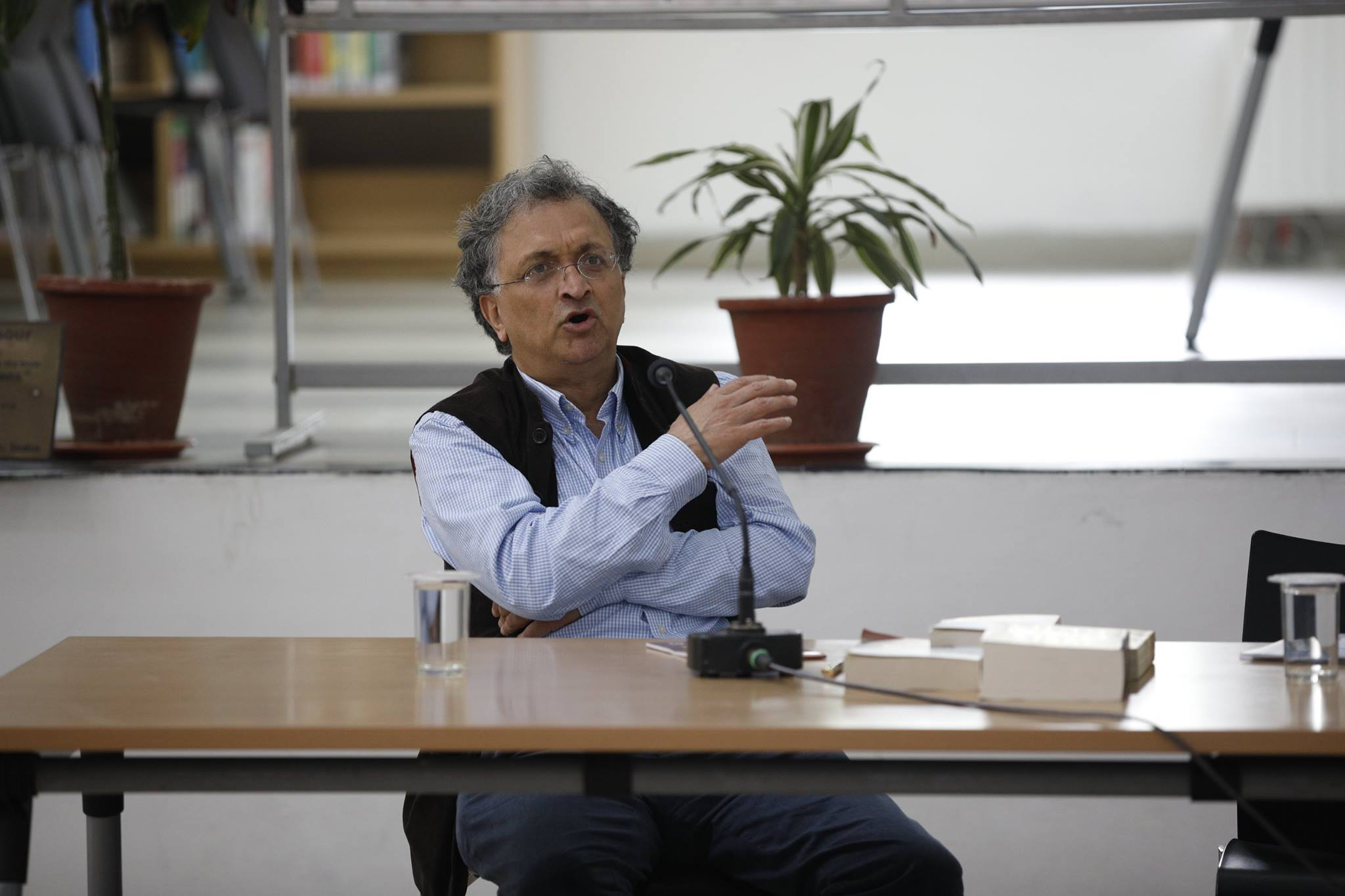 Author, historian Ram Guha delivering a talk at The Doon School library in 2017 as the Founder's Day chief guest.